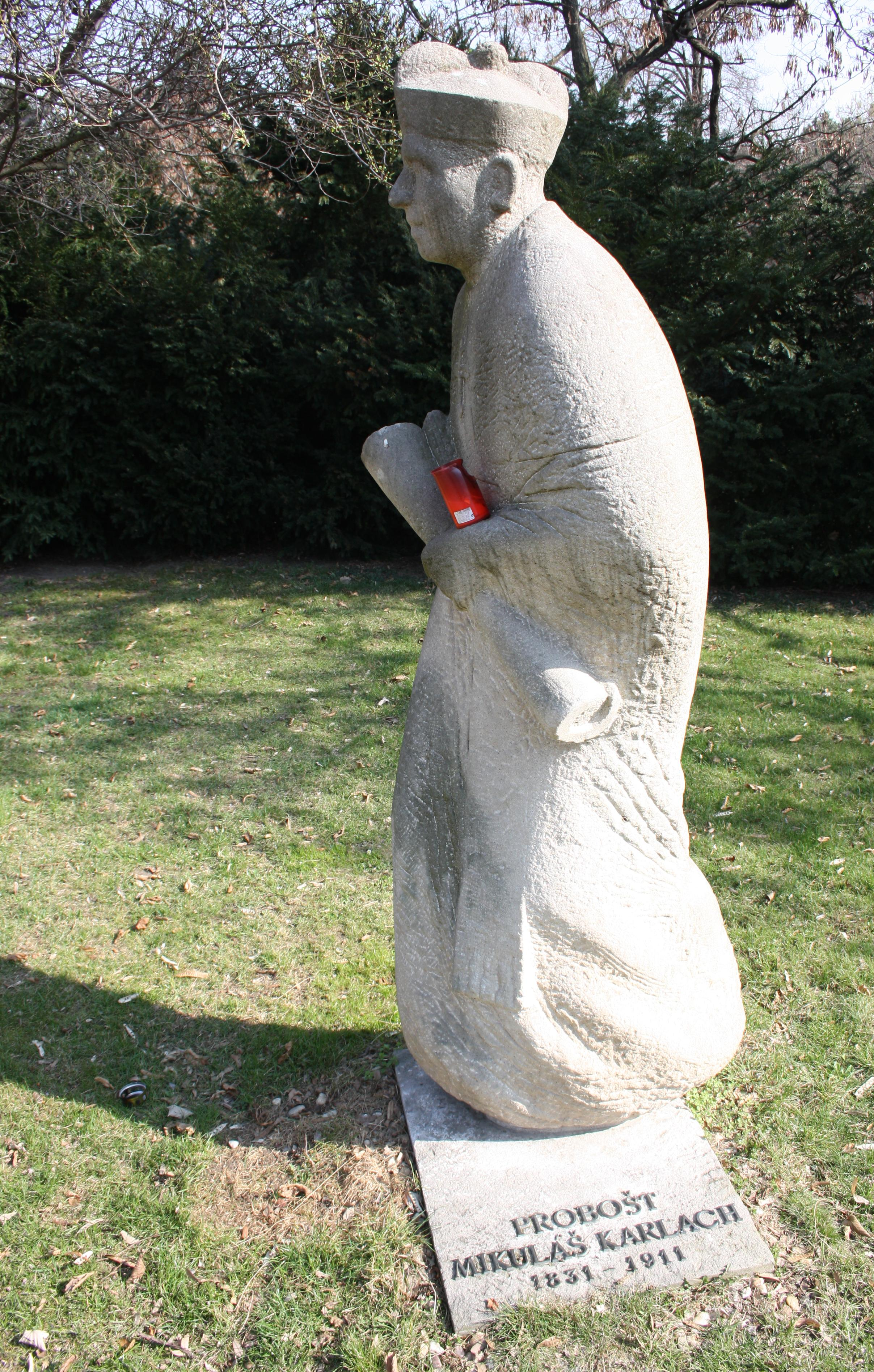 Statue of Mikuláš Probošt. Vyšehrad, Prague, Czech Republic This photograph was taken with a DSLR from WMCZ's Camera grant.